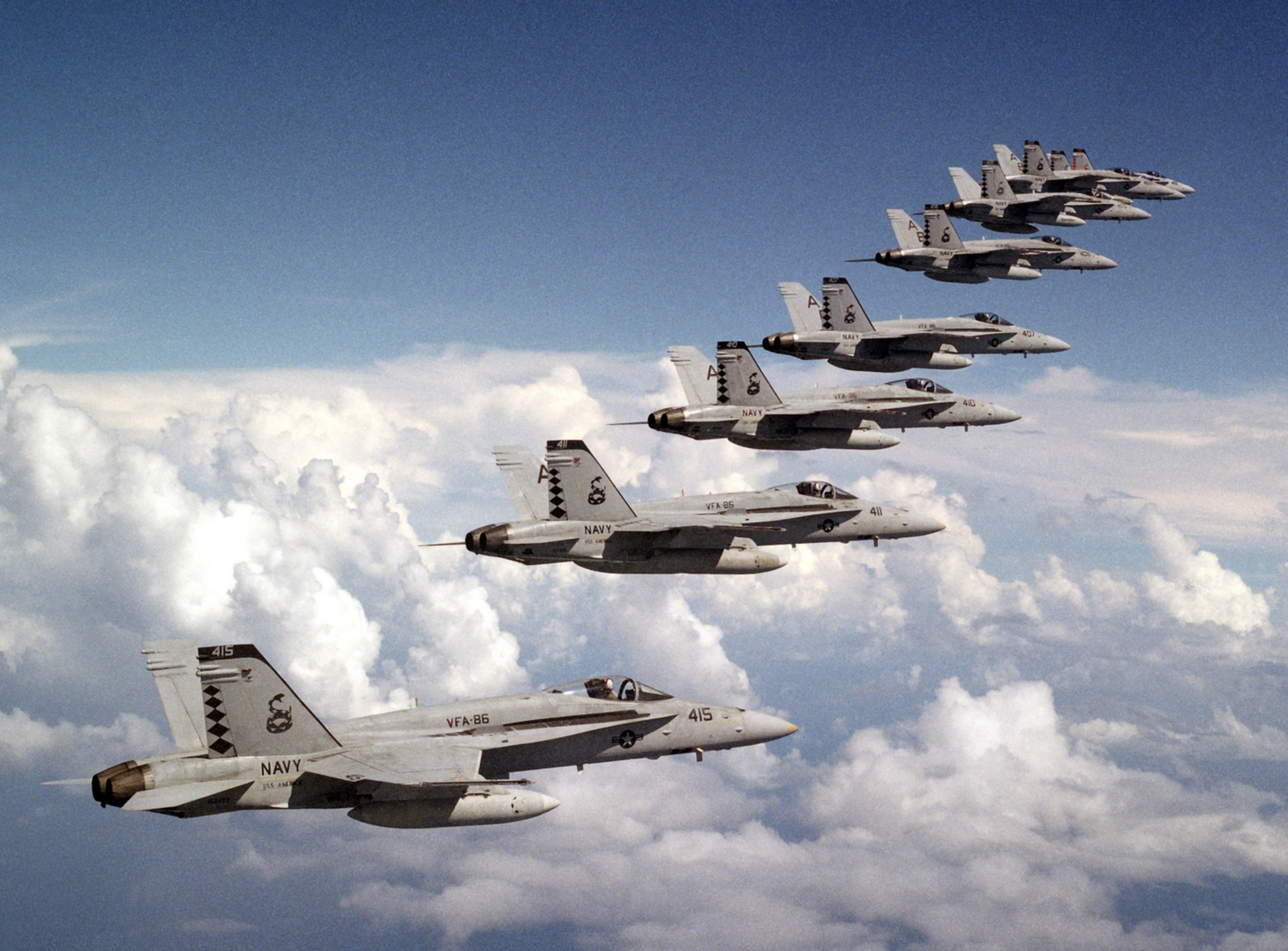 Ten U.S. Navy McDonnell Douglas F/A-18C Hornet fighters of strike fighter squadron VFA-86 Sidewinders flying in formation in Warning Area 158 off the coast of Jacksonville, Florida (USA), led by CDR John Noell, Commanding Officer of VFA-86. The squadron was homeported at NAS Cecil Field, Florida, and was assigned to Carrier Air Wing 1 (CVW-1) aboard the aircraft carrier USS America (CV-66). From 28 August 1995 to 24 February 1996 America made her last deployment before her decomissioning to the Mediterranean Sea and the Indian Ocean.